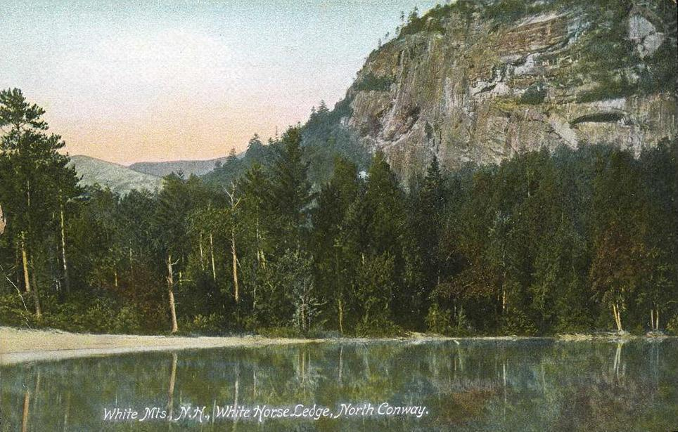 White Horse Ledge, North Conway, NH; from a c. 1908 postcard published by the Atkinson News Company, Tilton, New Hampshire.